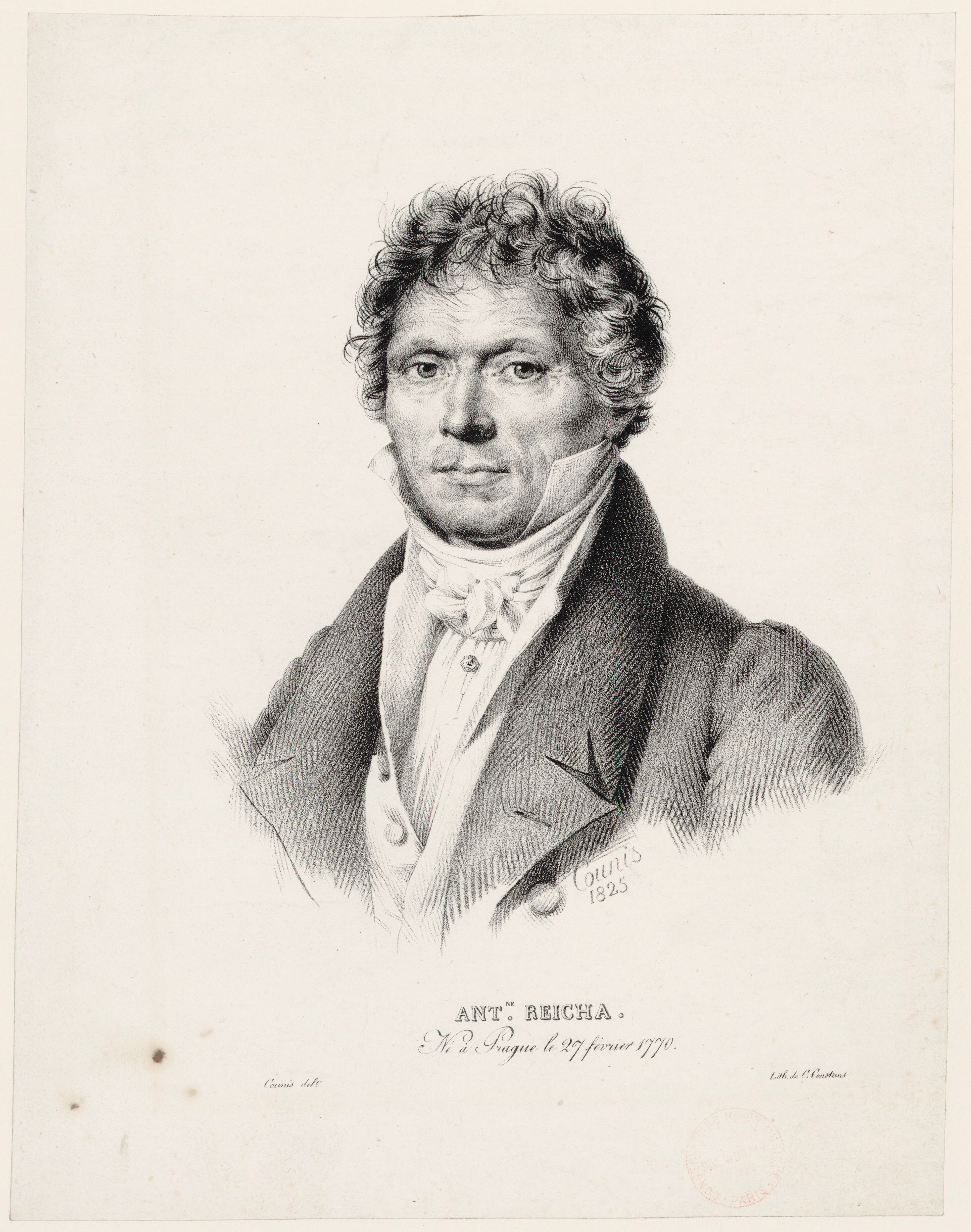 Czech musicologist and composer Anton Reicha (1770-1836) by C. Constans (17..18..) after Counis (17..-18..).